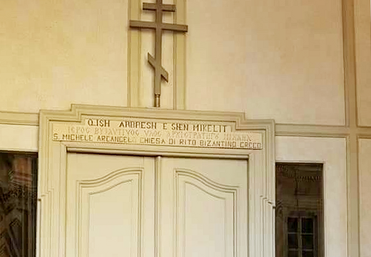 Church door